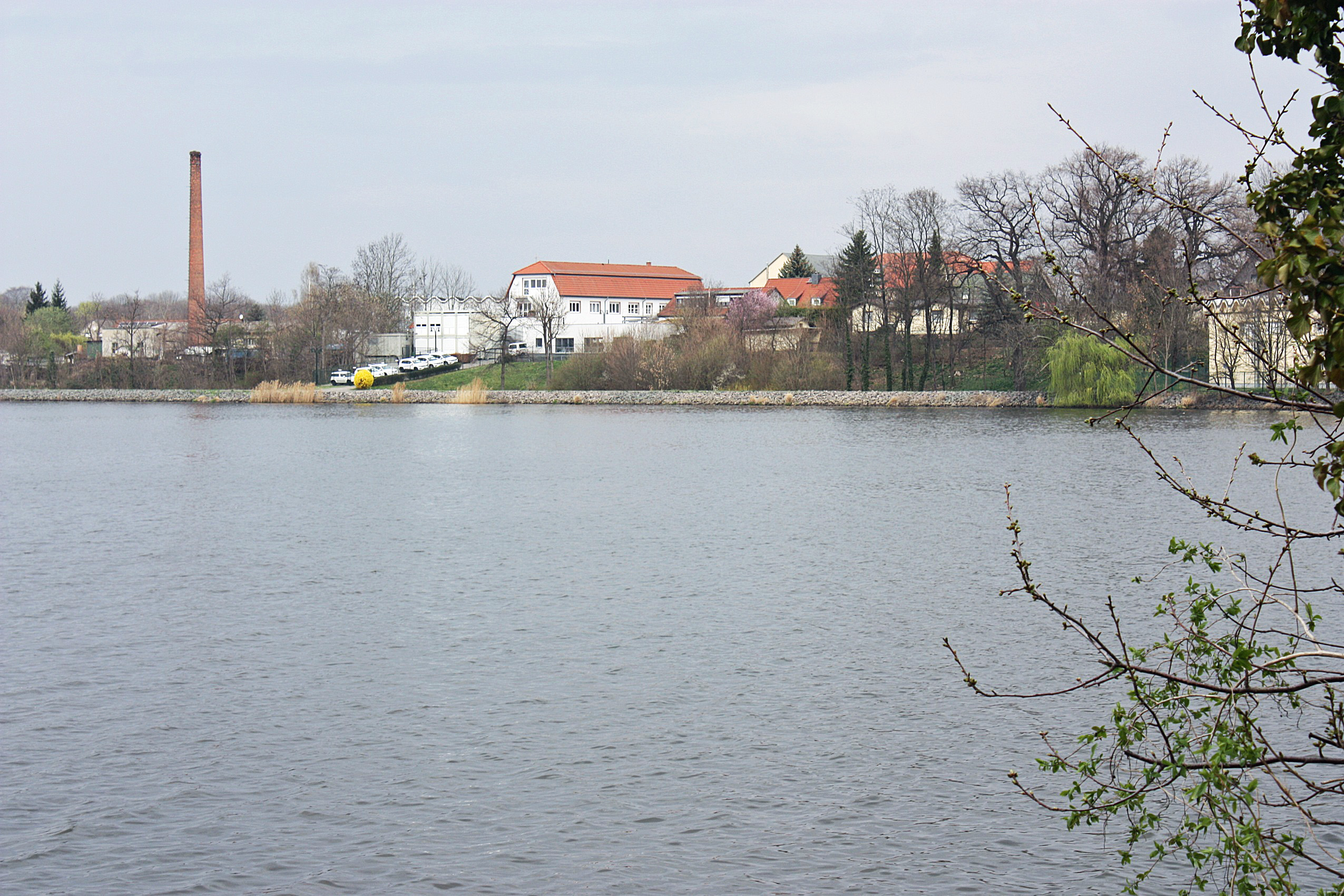 Rötha, at the reservoir Rötha